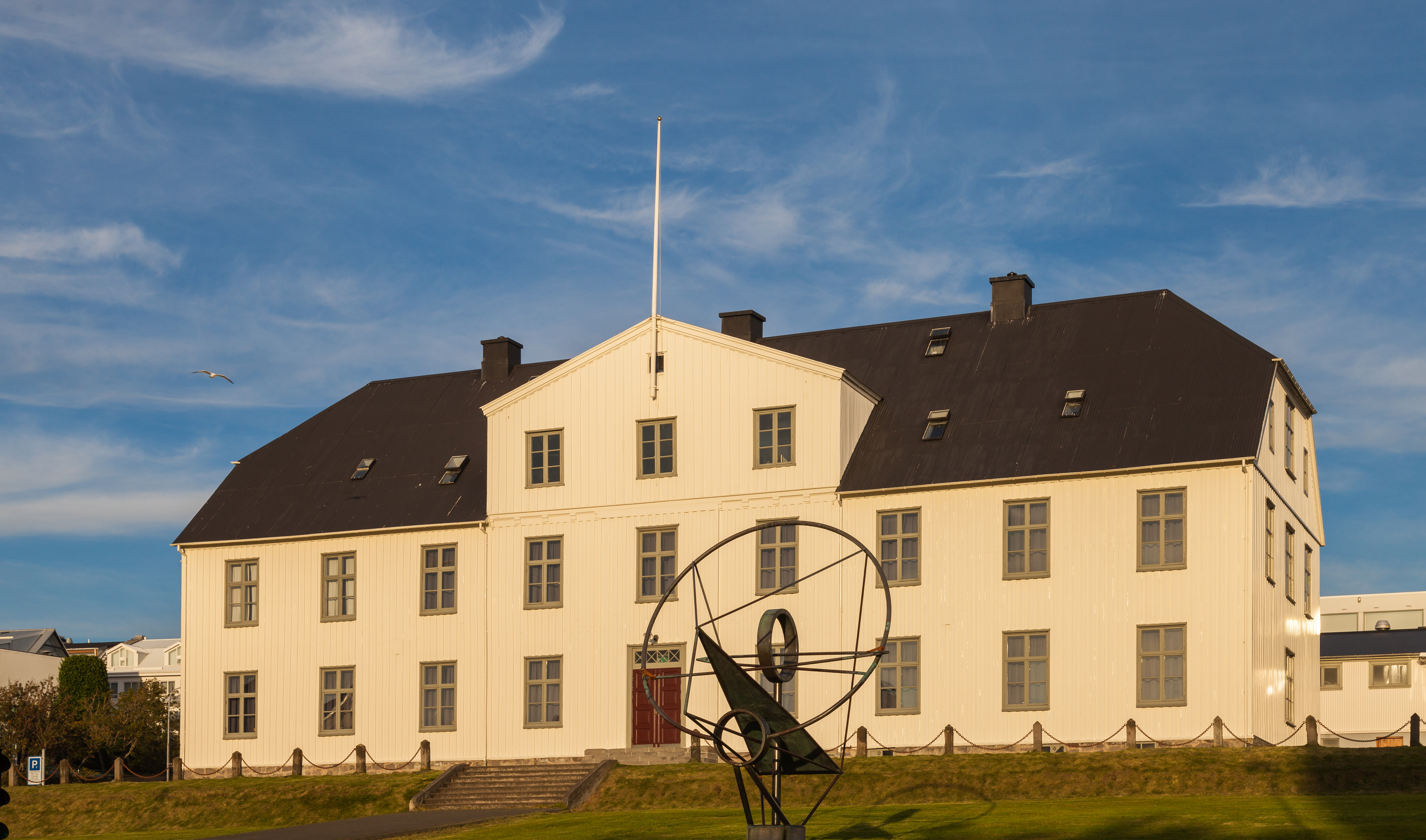 Menntaskóli (High School) in Reykjavík, Iceland.